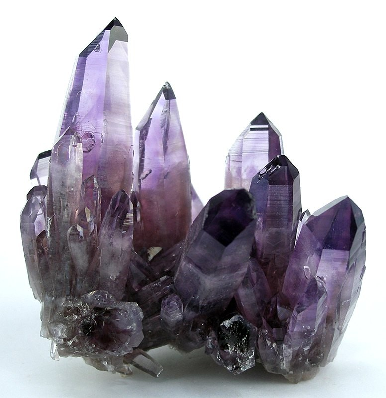 Quartz (Var.: Amethyst) Locality: Mina La Sorpressa, Amatitlán, Municipio de Zumpango del Rio, Guerrero, Mexico (Locality at ) Size: 6.4 x 6.3 x 5.5 cm. A stunning, gemmy, intense purple cluster of the most lustrous amethyst from Mexico you can ask for, from a famous find here. These crystals are so gemmy, they look pale in photo because the light runs through and does not capture the grape-juice color they have in person. This piece is particularly good because most are larger, and I have seen few small ones of this caliber. There is a small bit of damage...though just on two peripheral crystals and not to the two major crystals. Ex. Eugene Sensel, Richard Hauck Collections.